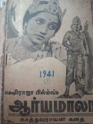 Song book cover of Tamil film Aryamala